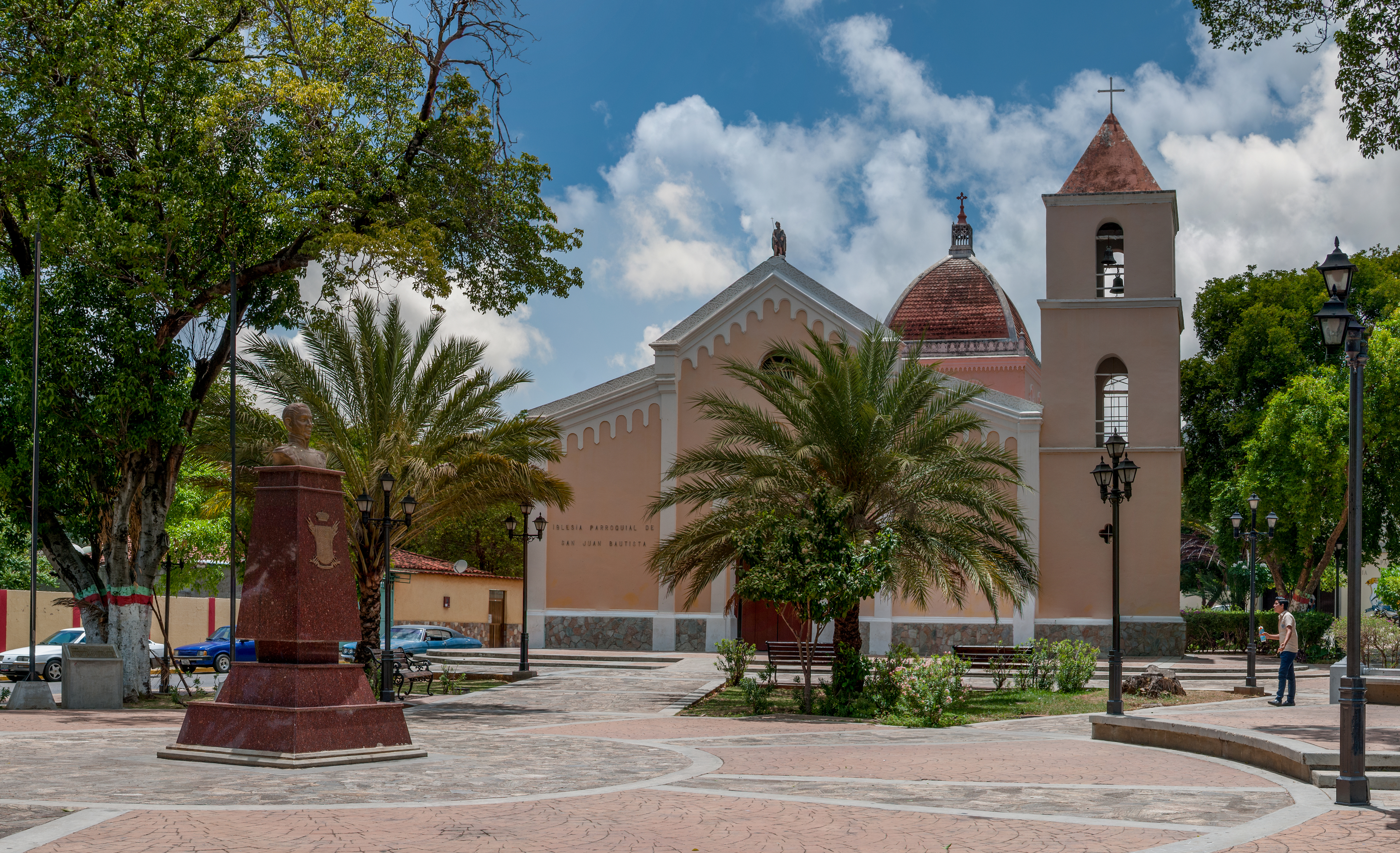 San Juan Bautista square in Nueva Esparta, Venezuela. Built in 1,754. The main entrance is framed with two pilasters, a pediment topping inserted in a neoclassical style. The facade is divided into three sections delimited by large pilasters. In the central part there is a picture of John the Baptist and to the right a bell tower with three bodies, there is access inside wall of three ships, the presbytery holds a square base dome and many ornaments.